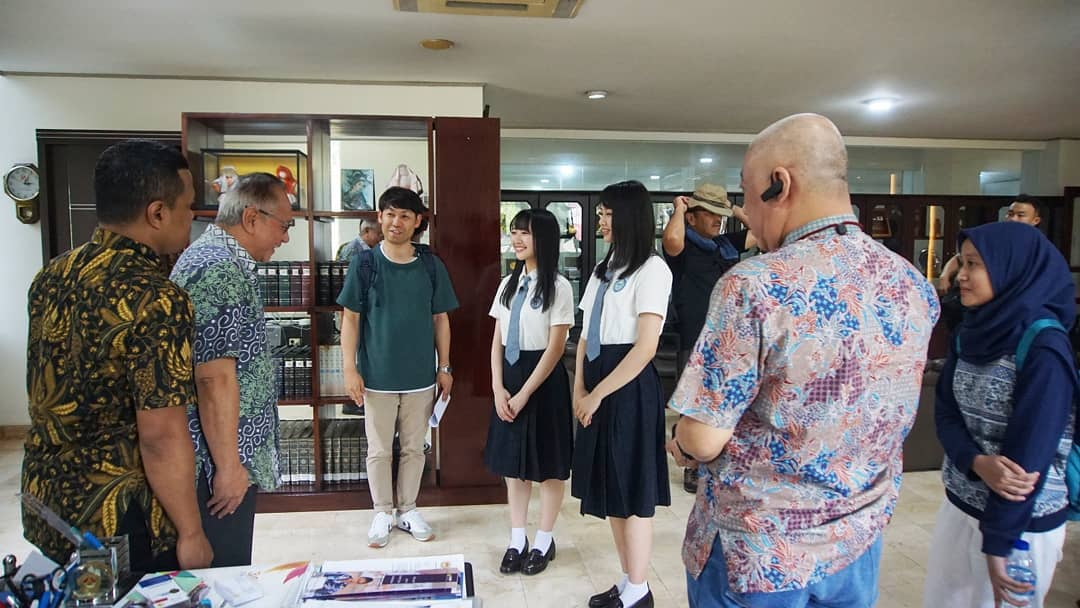 Chiho Ishida and Yumiko Takino visit Universitas Darma Persada, Jakarta